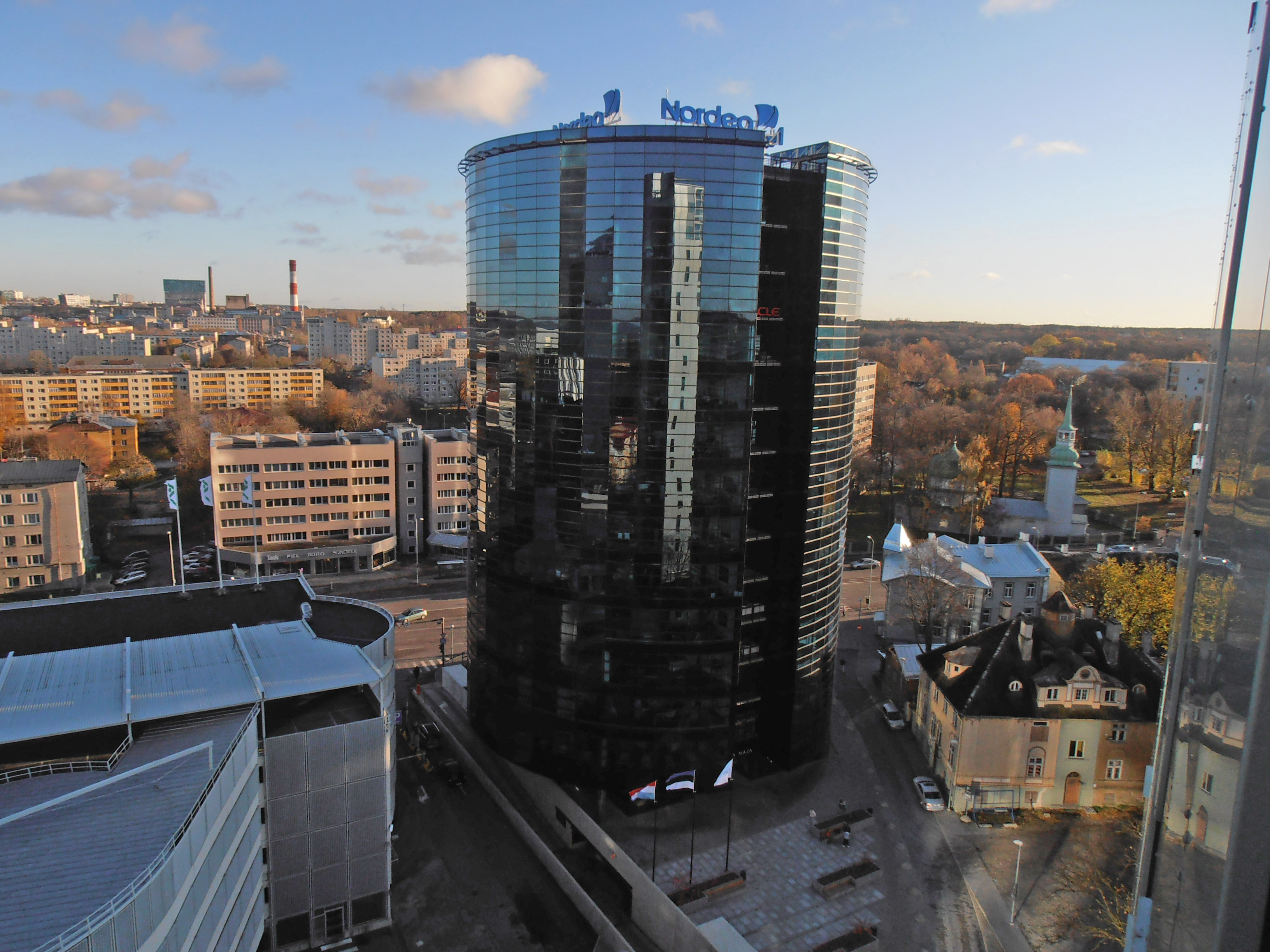 Liivalaia tänav 45 Nordea Headquarters in Estonia 31 October 2011